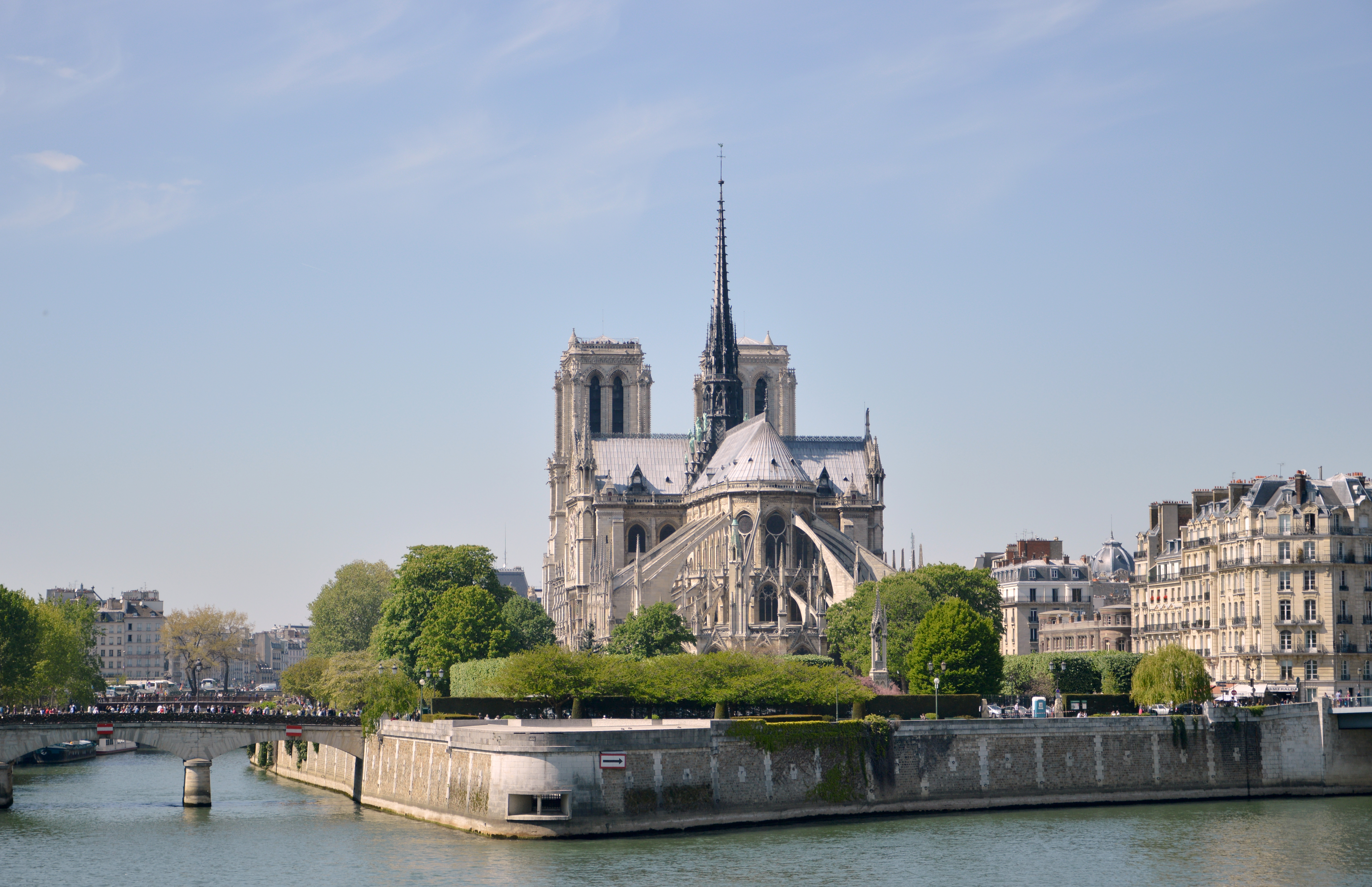 Notre-Dame de Paris as seen from the Pont de la Tournelle, Paris.